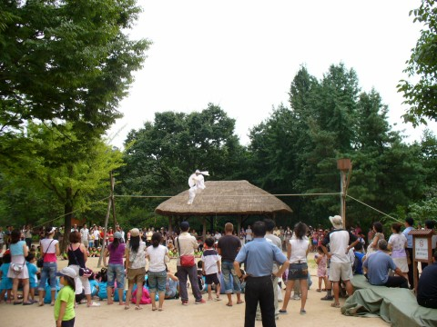 A tightrope walker at the Korean Folk Village